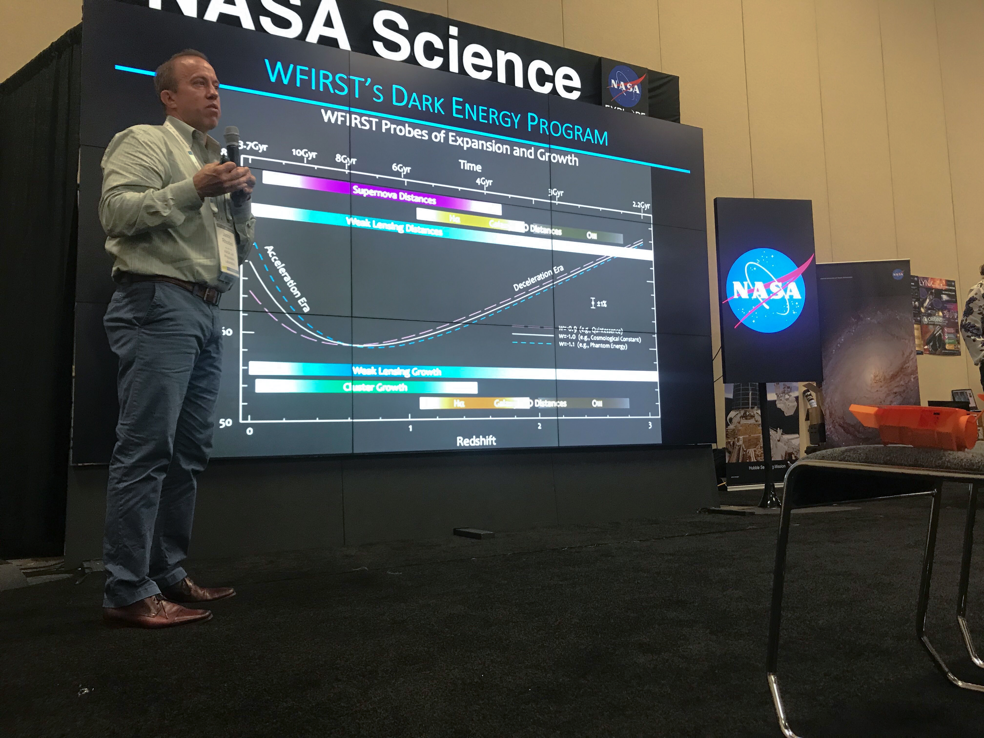 These photos were taken during the American Astronomical Society (AAS) conference in Honolulu, Hawaii, January 2020. The AAS is an American society of professional astronomers. NASA’s Wide-Field Infrared Surveying telescope (WFIRST) team displayed a miniature 3-D model of the spacecraft at various locations throughout the event. Credit: NASA/Goddard/Courtney A. Lee NASA image use policy. NASA Goddard Space Flight Center enables NASA’s mission through four scientific endeavors: Earth Science, Heliophysics, Solar System Exploration, and Astrophysics. Goddard plays a leading role in NASA’s accomplishments by contributing compelling scientific knowledge to advance the Agency’s mission. Follow us on Twitter Like us on Facebook Find us on Instagram